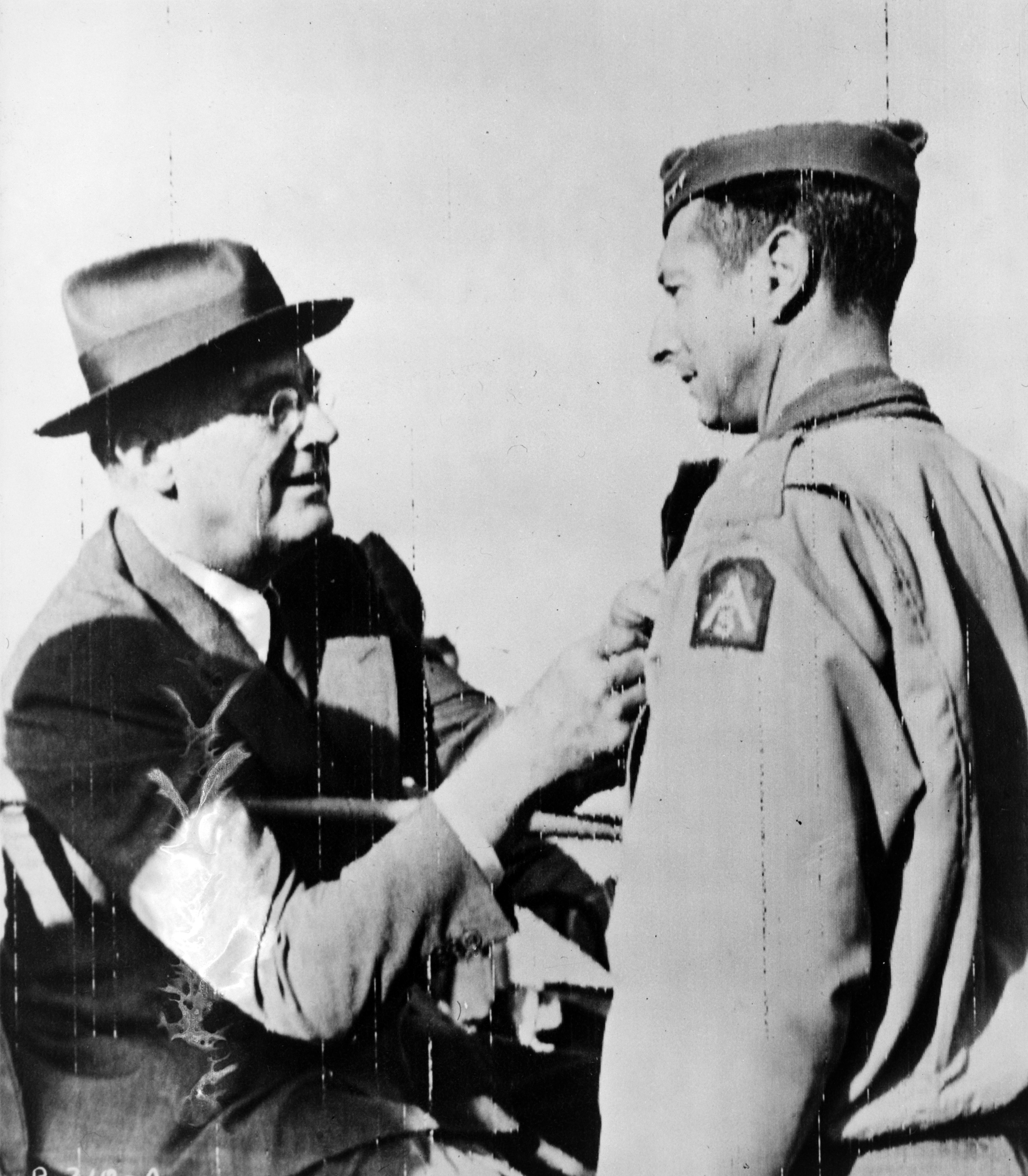 U.S. President Franklin D. Roosevelt awarding the Distinguished Service Cross to General Mark W. Clark during a stop in Castelvetrano, Italy.